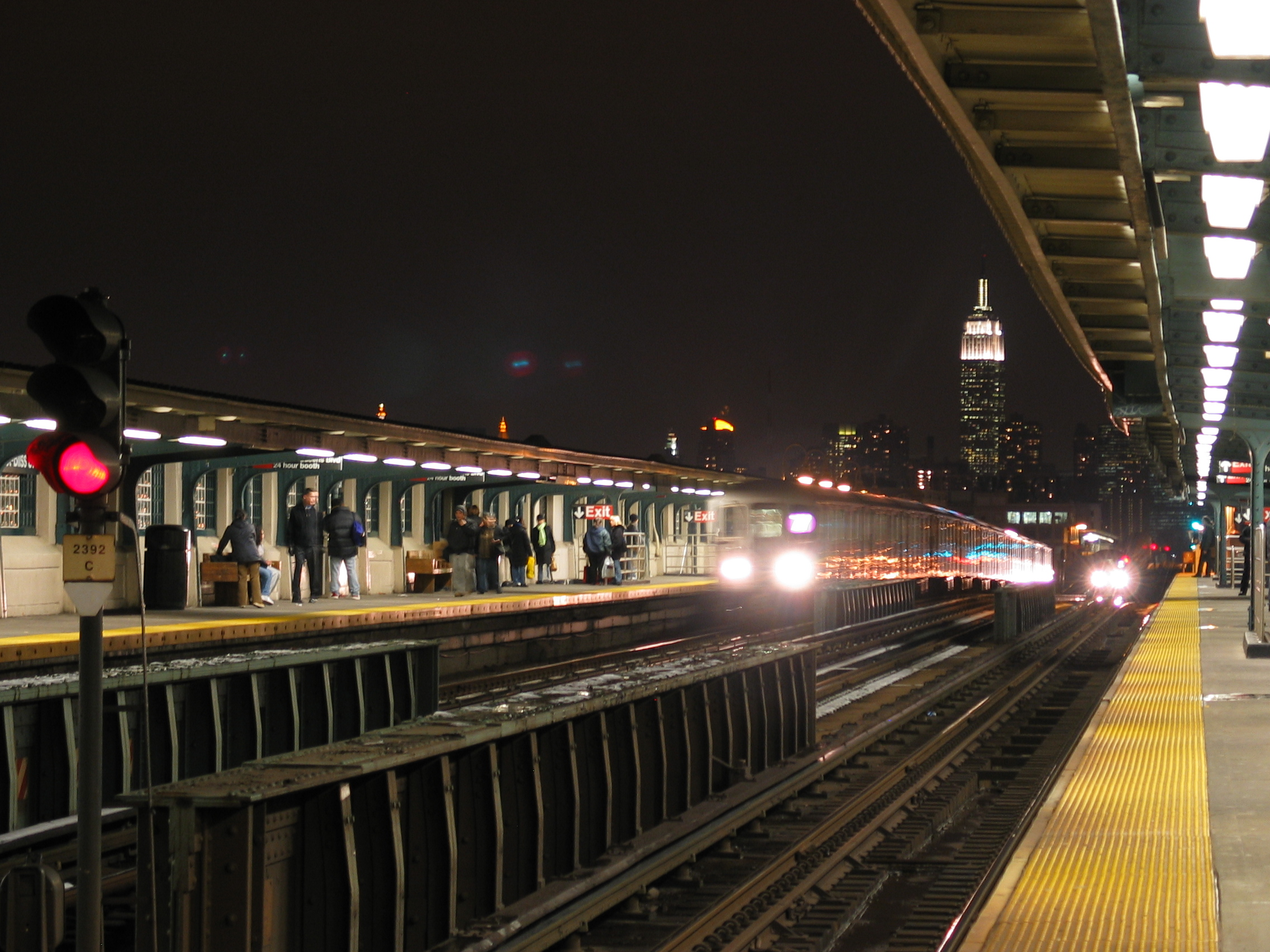 46th Street-Bliss Street elevated station on the IRT Flushing line with Main street bound 7 local and express trains arriving/going through and Manhattan skyline in the background.